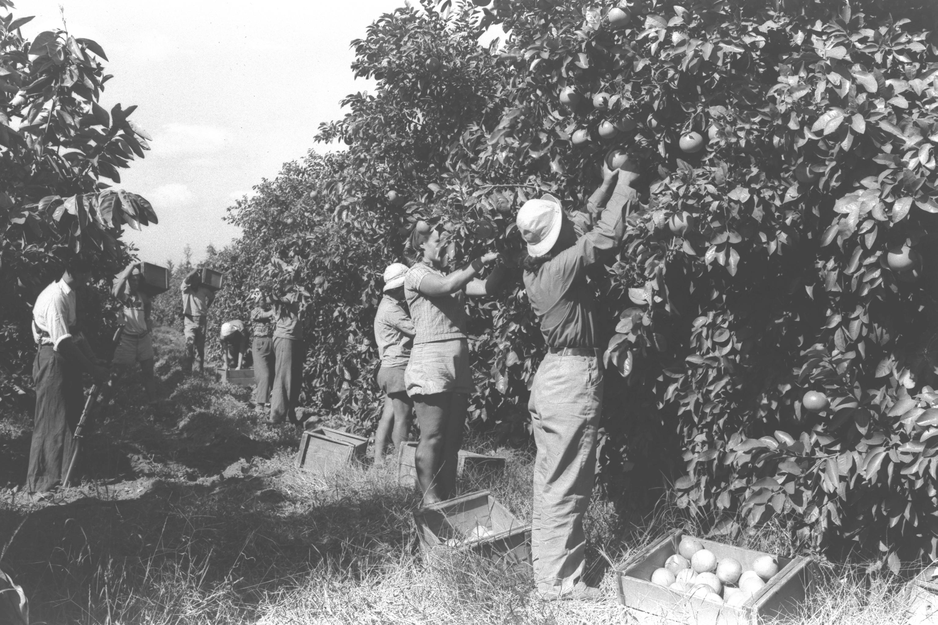 Workers in the orange grove of Kibbutz Na'an. חלוצים, עובדים בקטיף תפוזים בקיבוץ נען. Photo: Zoltan Kluger (1896–1977) Alternative names Qlwger, Zwlṭan; Zolṭan Ḳluger; Kluger, Z.; W. von Szigethy; W. Von SzighethyDescriptionHungarian-Israeli photographerDate of birth/death 8 February 1896 16 May 1977Location of birth/death Kecskemét ManhattanAuthority control : Q7035699 VIAF: 19504001 ISNI: 0000 0000 6686 1613 ULAN: 500483392 LCCN: no2008144265 Open Library: OL6614008A WorldCat creator QS:P170,Q7035699 , 07/07/1938.